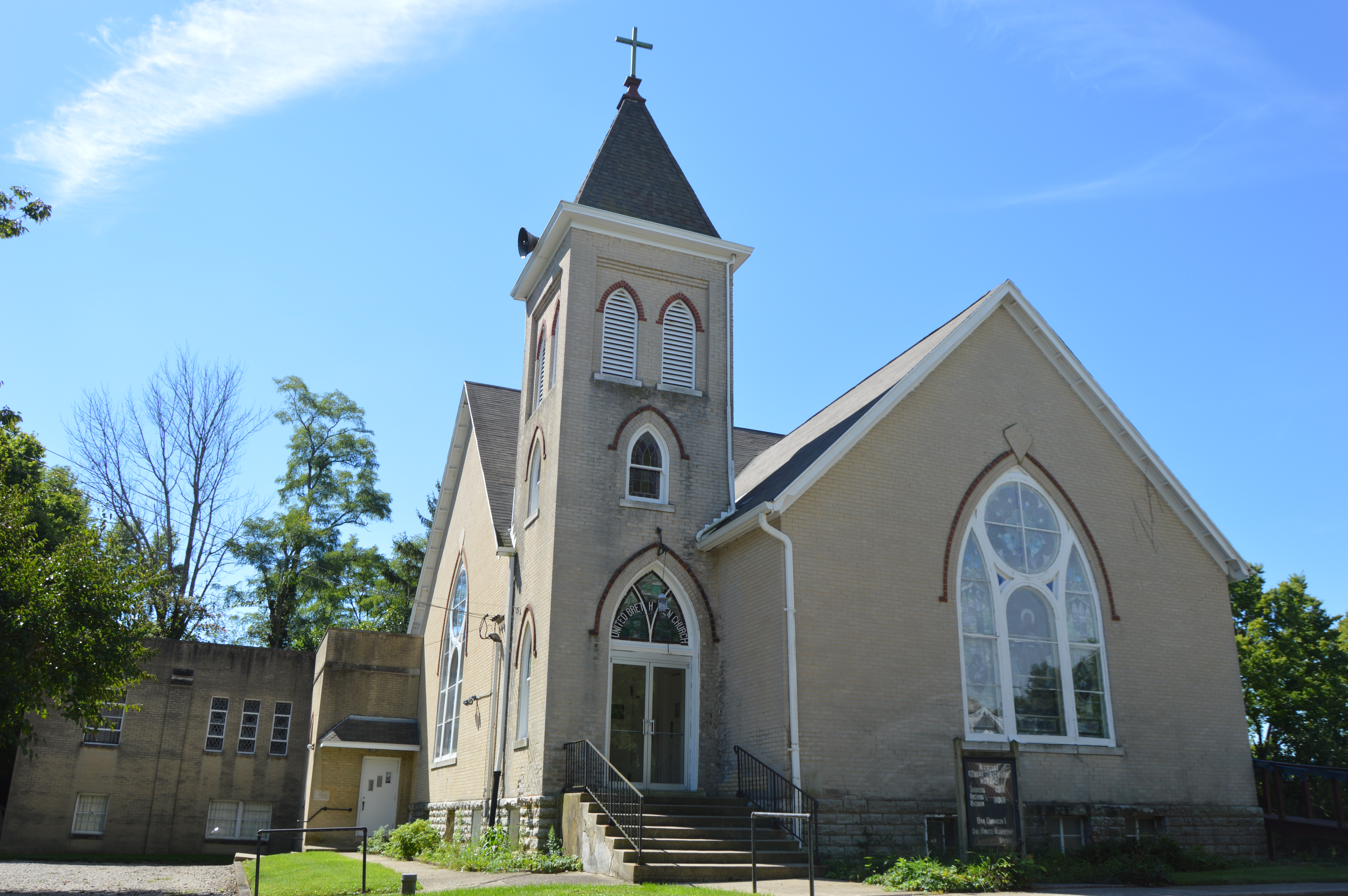 Front and eastern side of the Liberty United Methodist Church, located at 7840 Pemberton Avenue in Liberty, Ohio, United States. It was built in 1905.